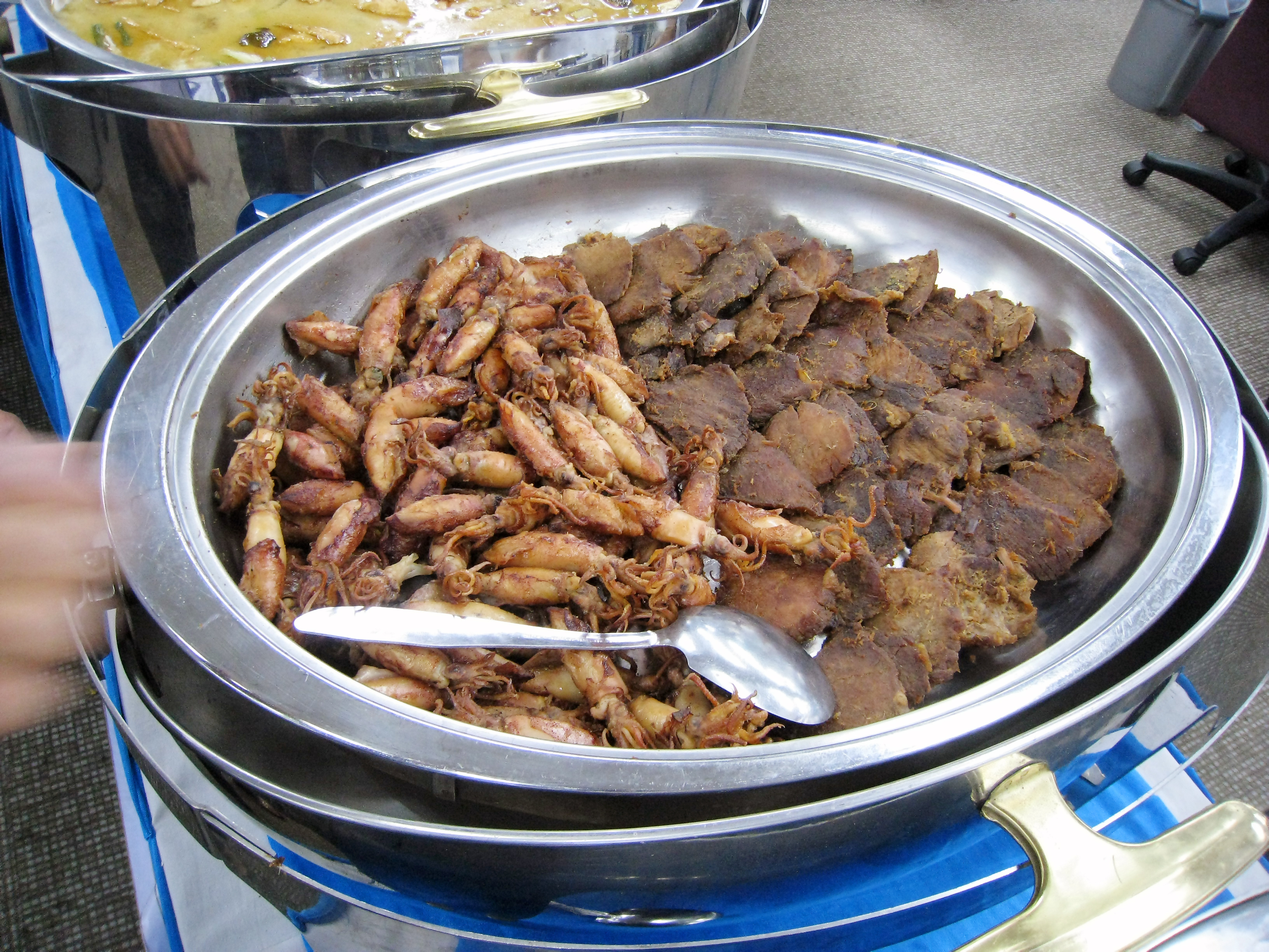 Empal Gepuk Daging (sweet fried beef) and Cumi Asin (fried salted squid). Sundanese cuisine served in a prasmanan (buffet) in Jakarta, Indonesia.